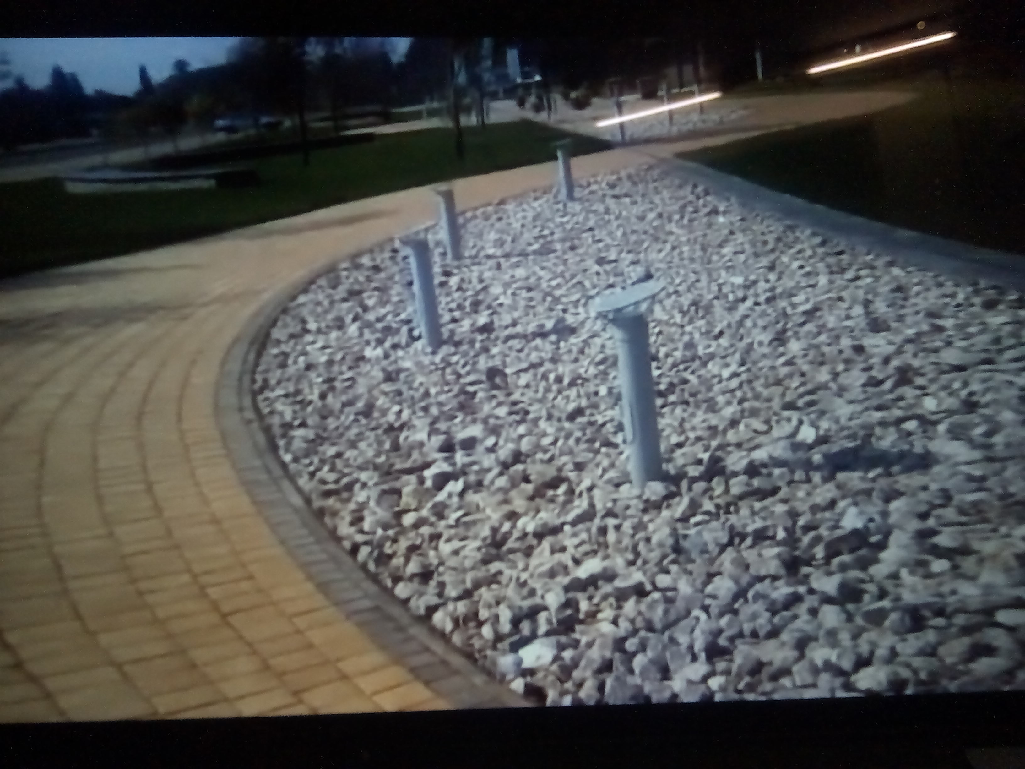 This is part of the Chris Hani Monument